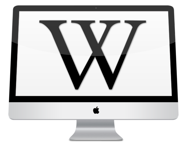 Logo for WP:MAC.